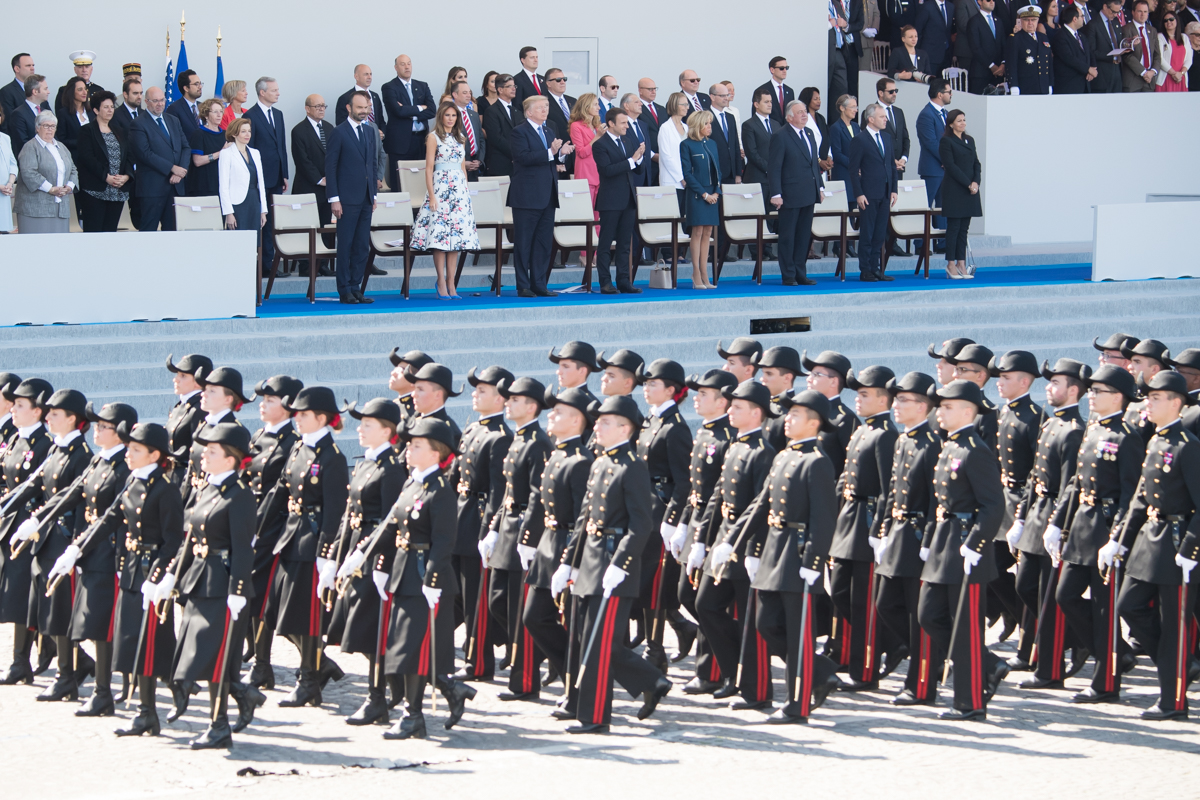 French National Day Parade | July 14, 2017 (Official White House Photo by Andrea Hanks)